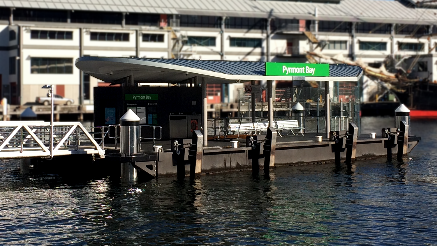 View of the Pyrmont Bay ferry wharf in Pyrmont, New South Wales, as it appeared in March 2017. The wharf is currently serviced by Sydney Ferries, as part of its F4 Darling Harbour service, and the Manly Fast Ferry. The wharf's design resemblems most wharves built and rebuilt during the Berejiklian and Constance Transport for New South Wales era, marked by a curved, potato-chip like roof design, and padded with a back and green colour scheme, along with signboards that conform to the Transport New South Wales livery.